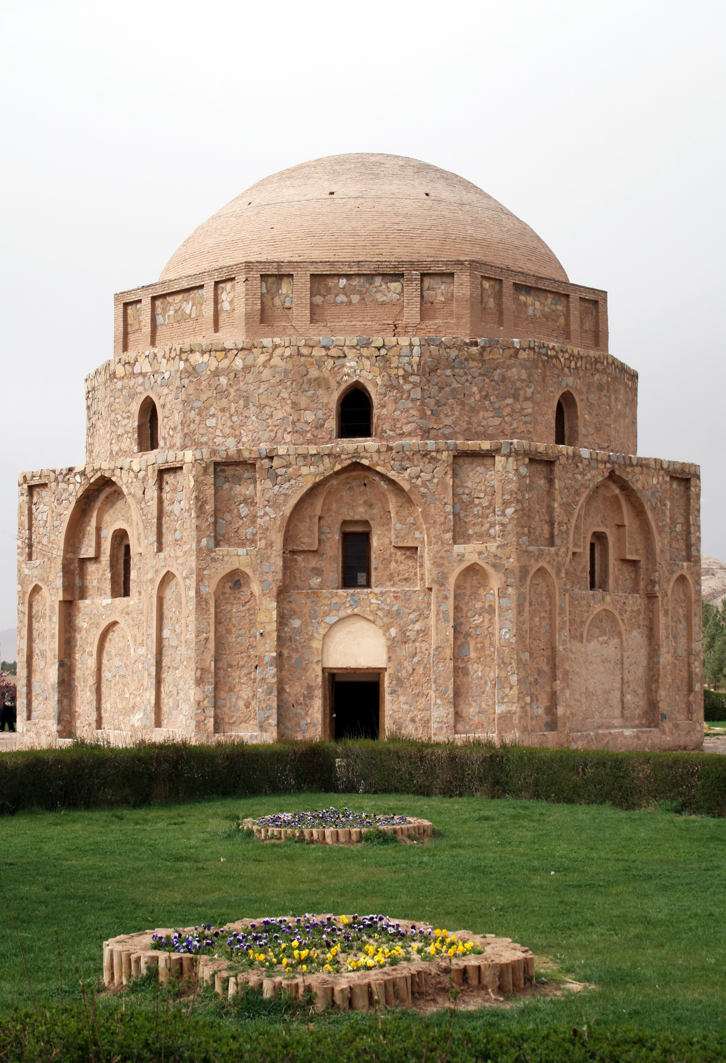 Gonbade jabaliyeh